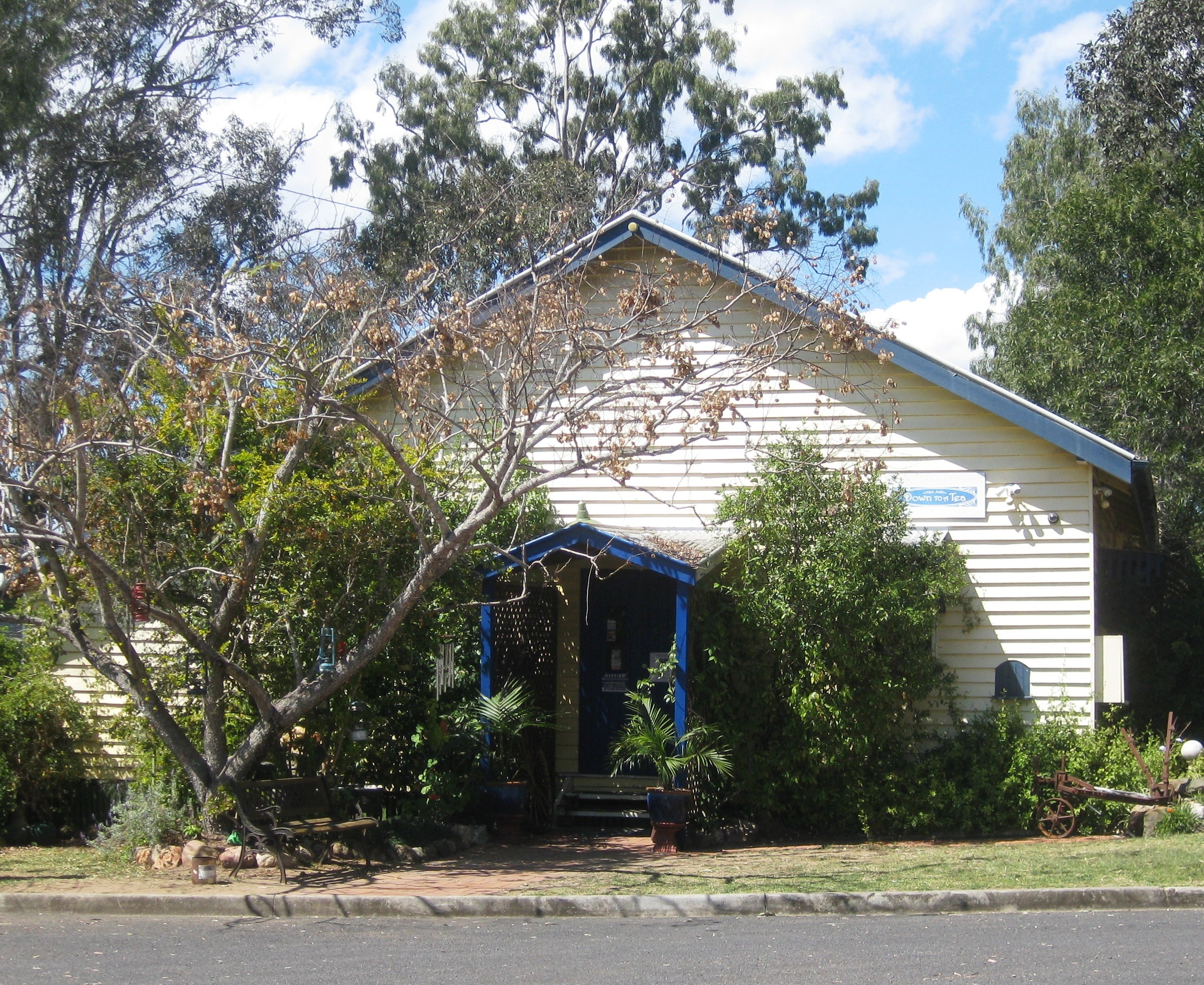 Formerly the Old Fernvale Dance Hall. The scene of dances, balls, musical evenings, wedding receptions and fetes, the Old Fernvale Hall was the centre of social life in Fernvale from 1934 through to the 1980s. Now tearoom and giftshop.